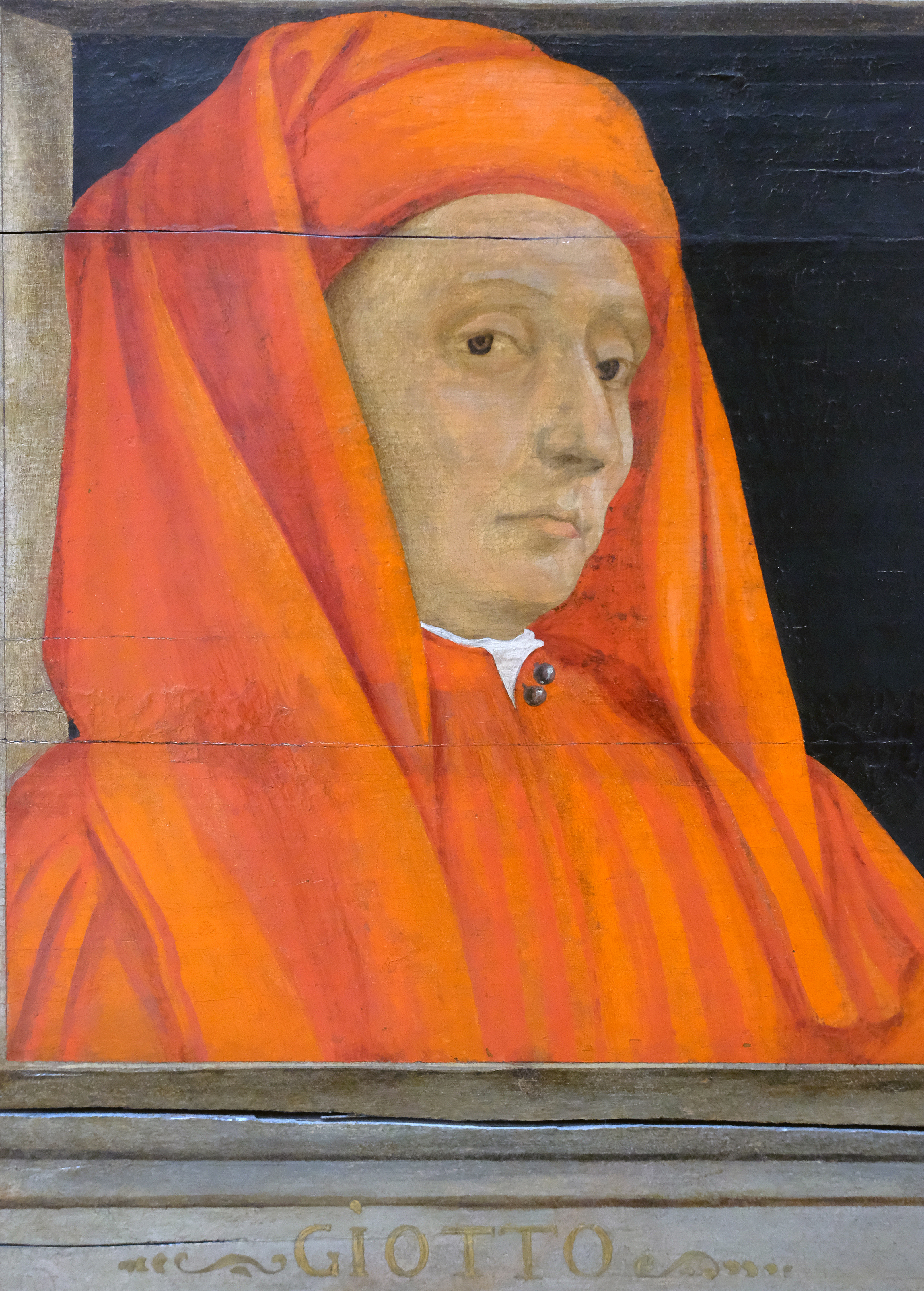 Portraits of Giotto, Paolo Uccello, Donatello, Antonio Manetti et Filippo Brunelleschi